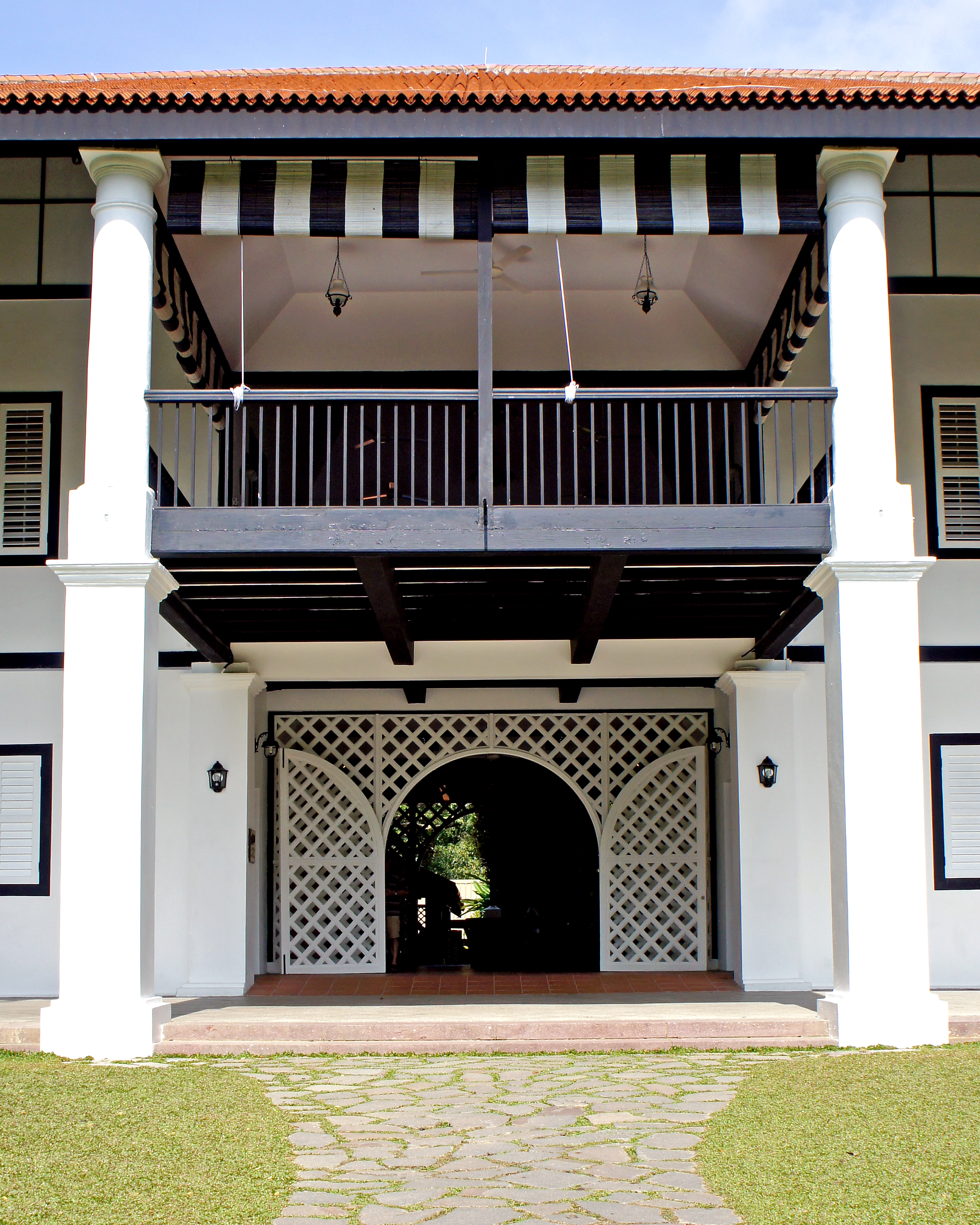 Burkill Hall in Singapore Botanic Gardens, originally name the Director's House, renamed to honor Isaac and Humphrey Burkill who were directors of Singapore Botanic Gardens.